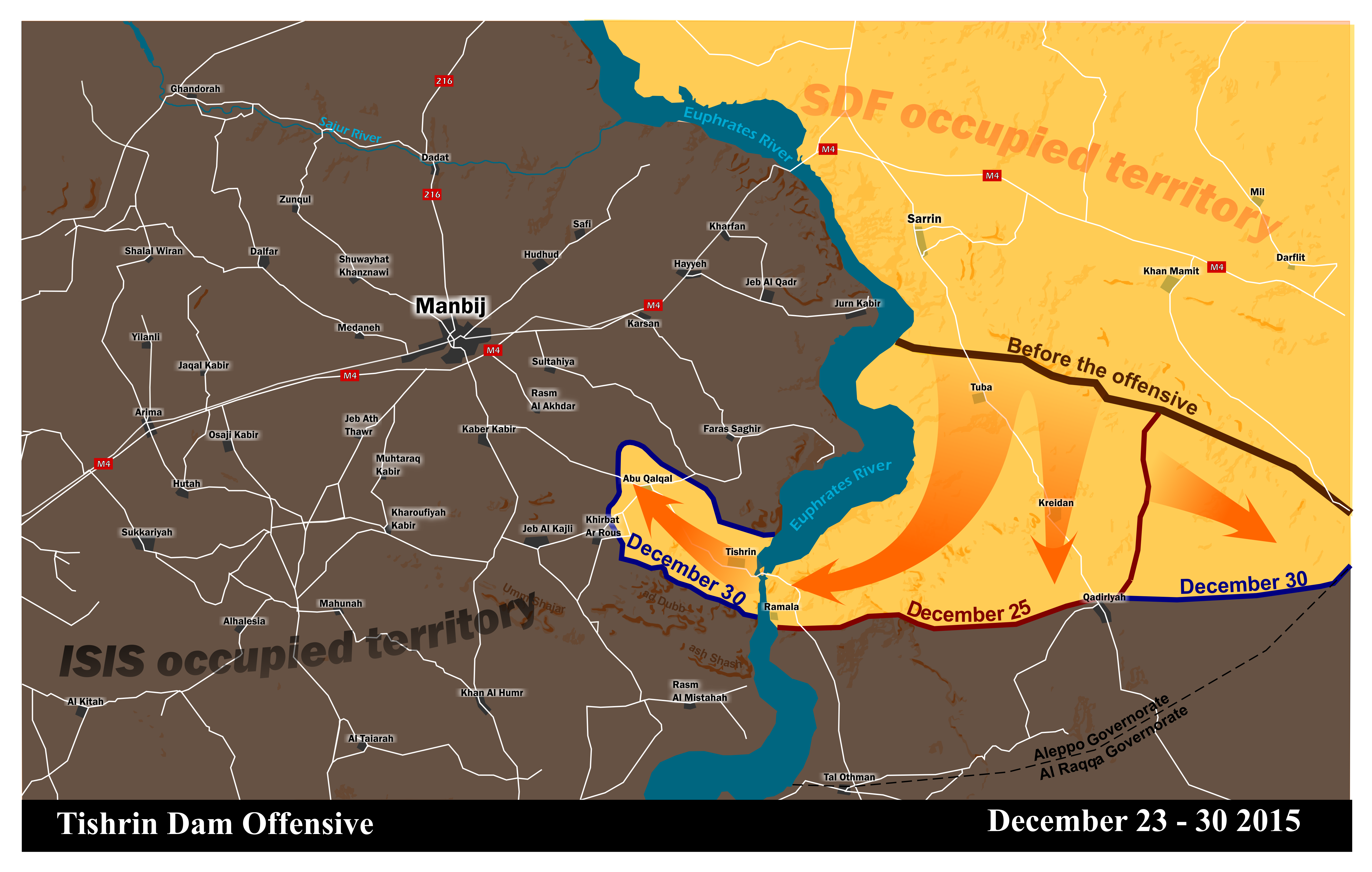 Map of the Tishrin Dam Offensive made in Inkscape. Influenced by mappers such as MrPenguin20, Naenil, Nrg8000, Edmaps Syria, and so on. SVG version is on my uploads Wikimedia page.